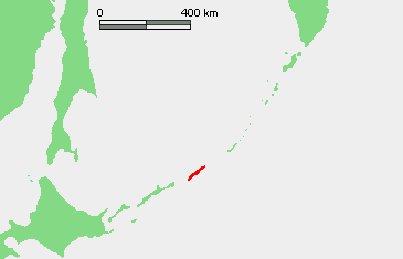 Location of Urup Island (Уруп / 得撫島), Kuril Islands, Russia